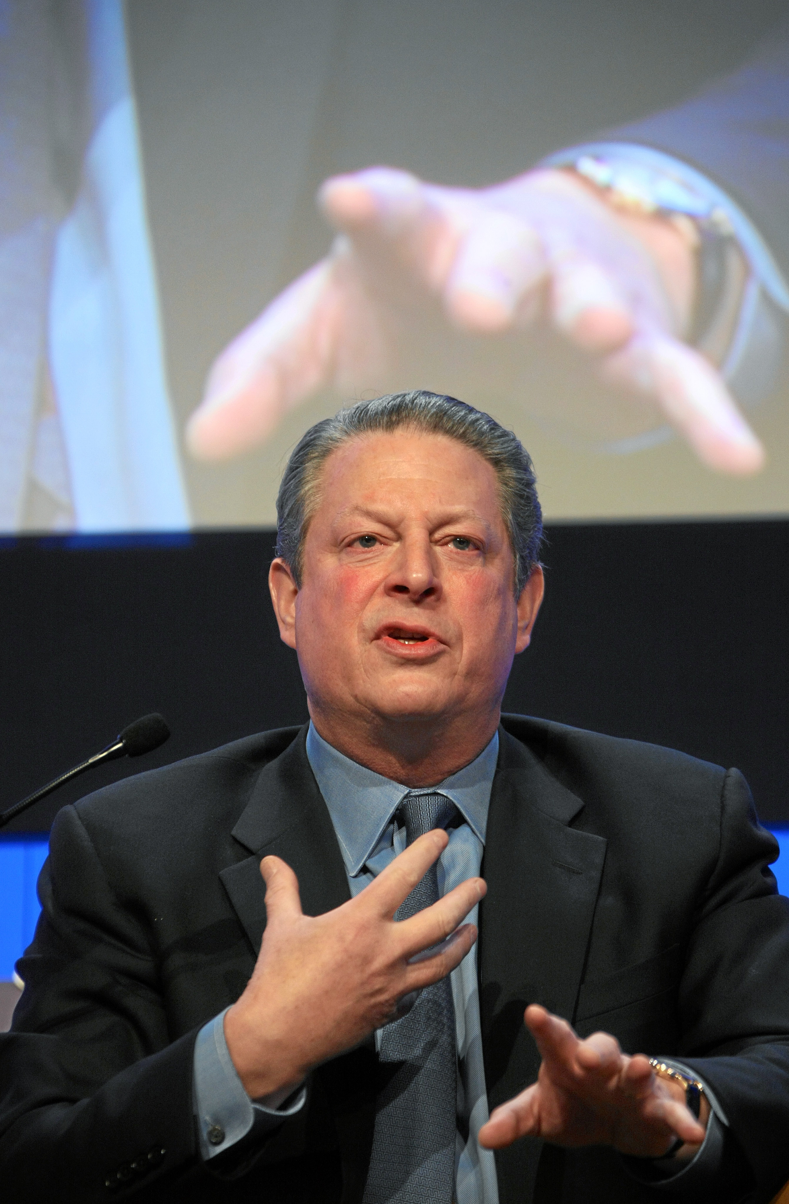 DAVOS/SWITZERLAND, 24JAN08 - Al Gore, Vice-President of the United States of America (1993-2001); Nobel Laureate 2007, captured during the session 'A Unified Earth Theory: Combining Solutions to Extreme Poverty and the Climate Crisis' at the Annual Meeting 2008 of the World Economic Forum in Davos, Switzerland, January 24, 2008.